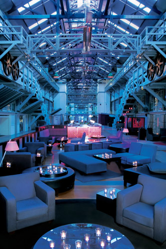 Water Bar at Blue Sydney